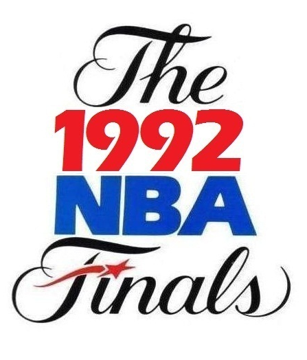 The text logo for the 1991 NBA Finals